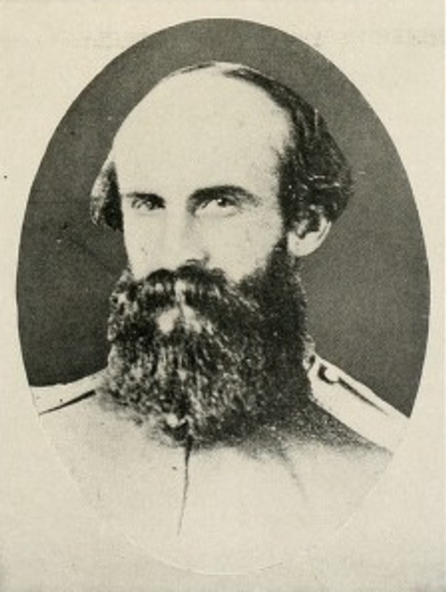 Confederate Cavalry General William E. Jones photographed while still a colonel with the Seventh Virginia Cavalry in 1862.